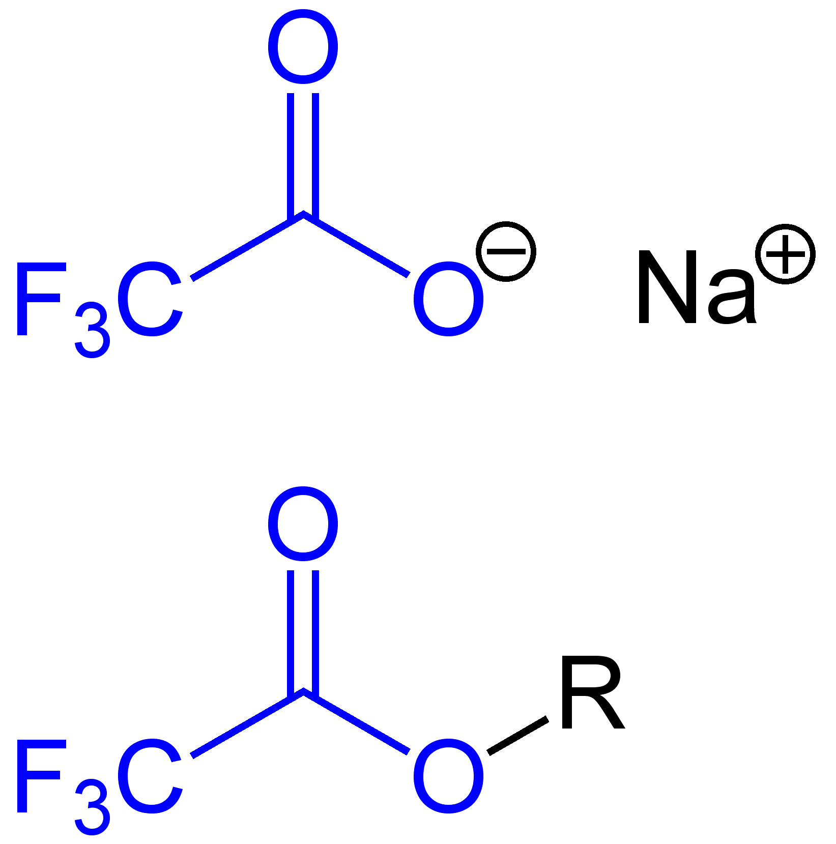 Trifluoro_acetate_general_formulae